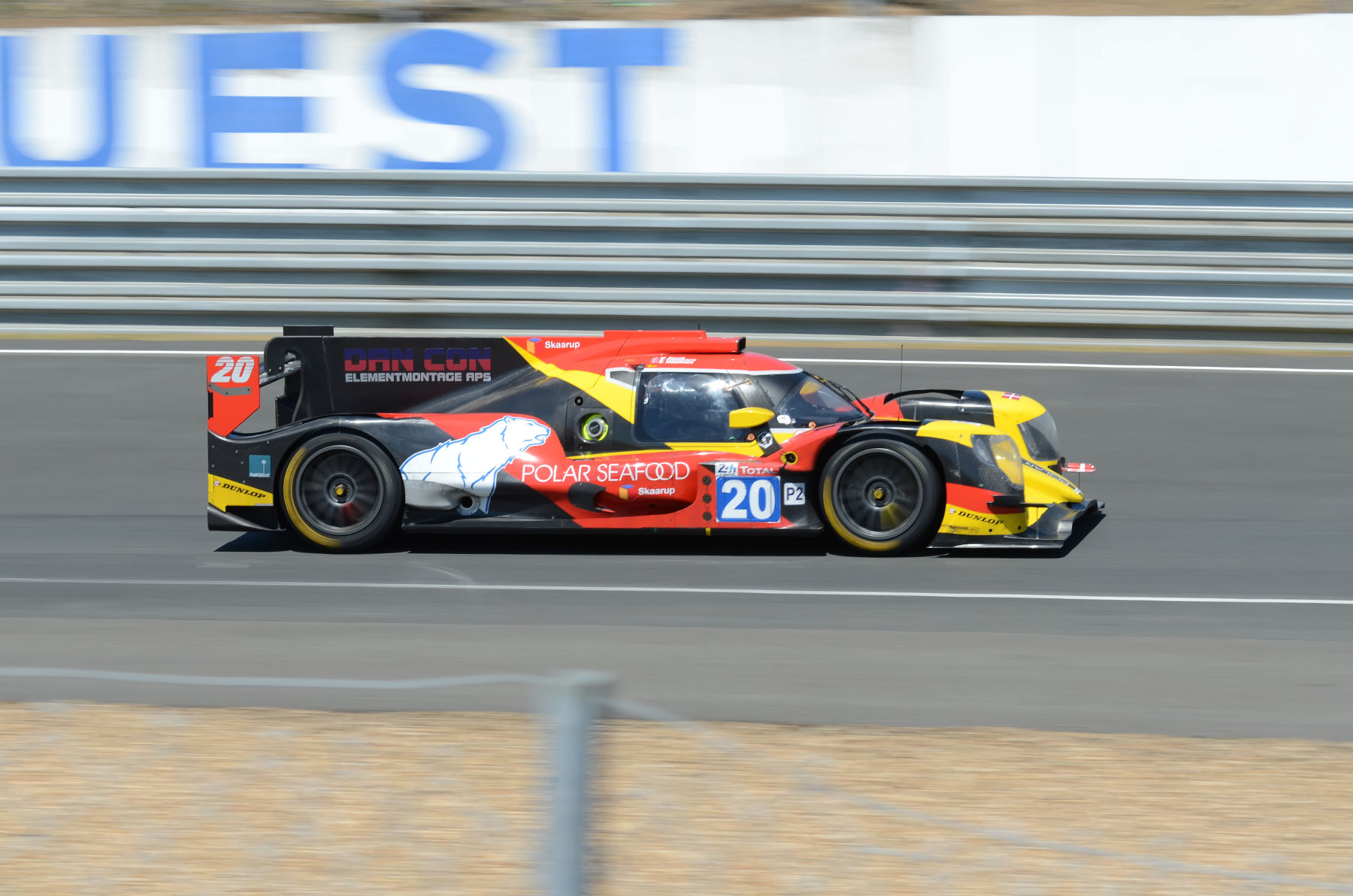 High Class Racing's Oreca 07 Gibson driven by Anders Fjordbach, Dennis Andersen and Mathias Beche at the 2019 24 Hours of Le Mans